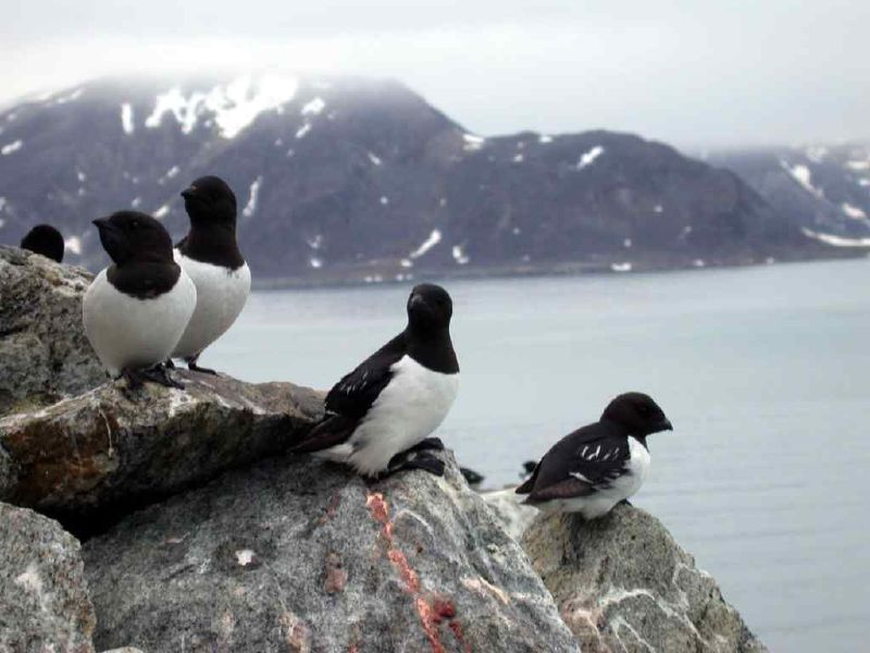 Alle alle, an arctic species. This is a breeding colony of thousands of birds on Spitzbergen, Svalbard.Little Auks